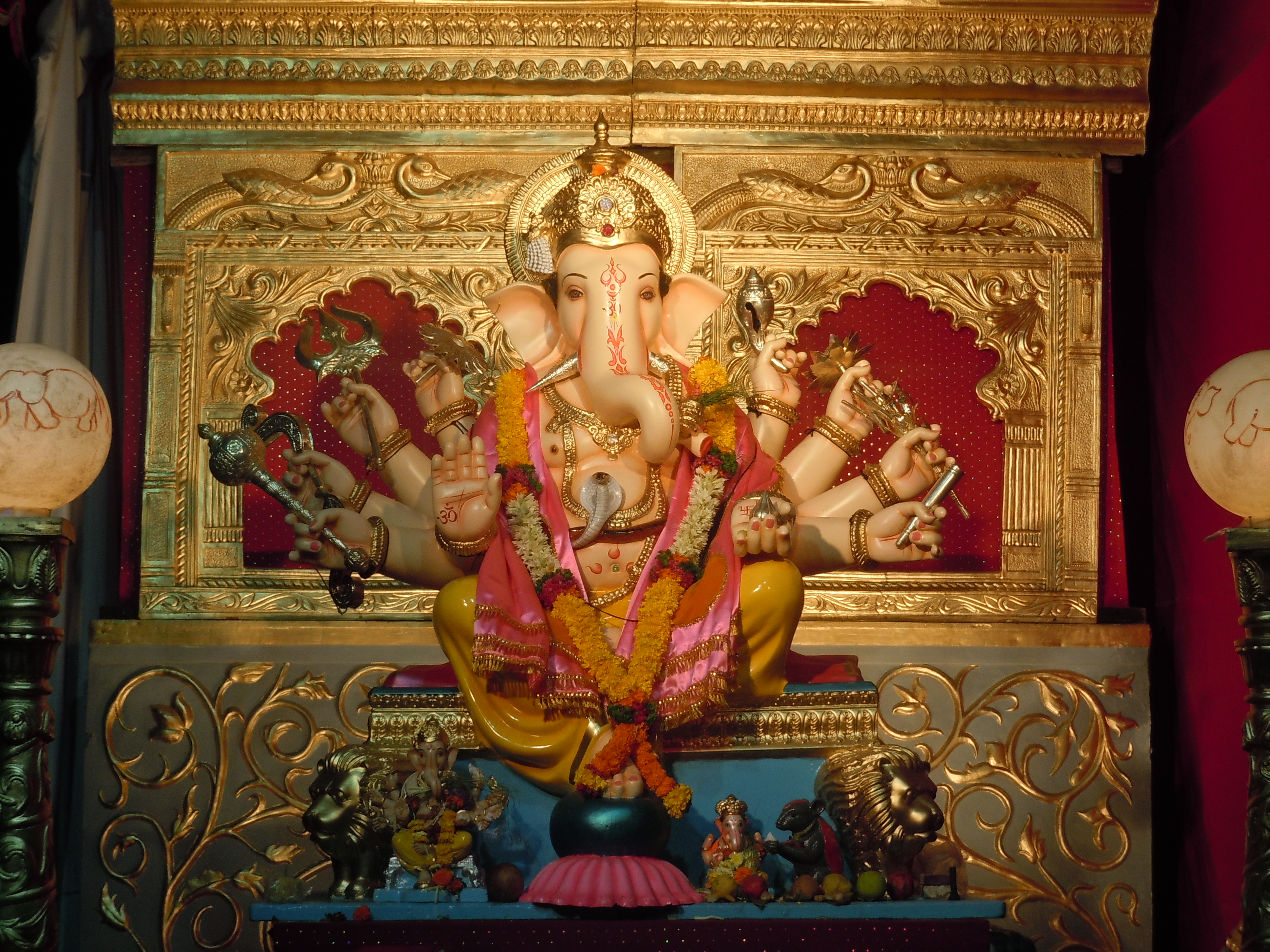 Pune,India